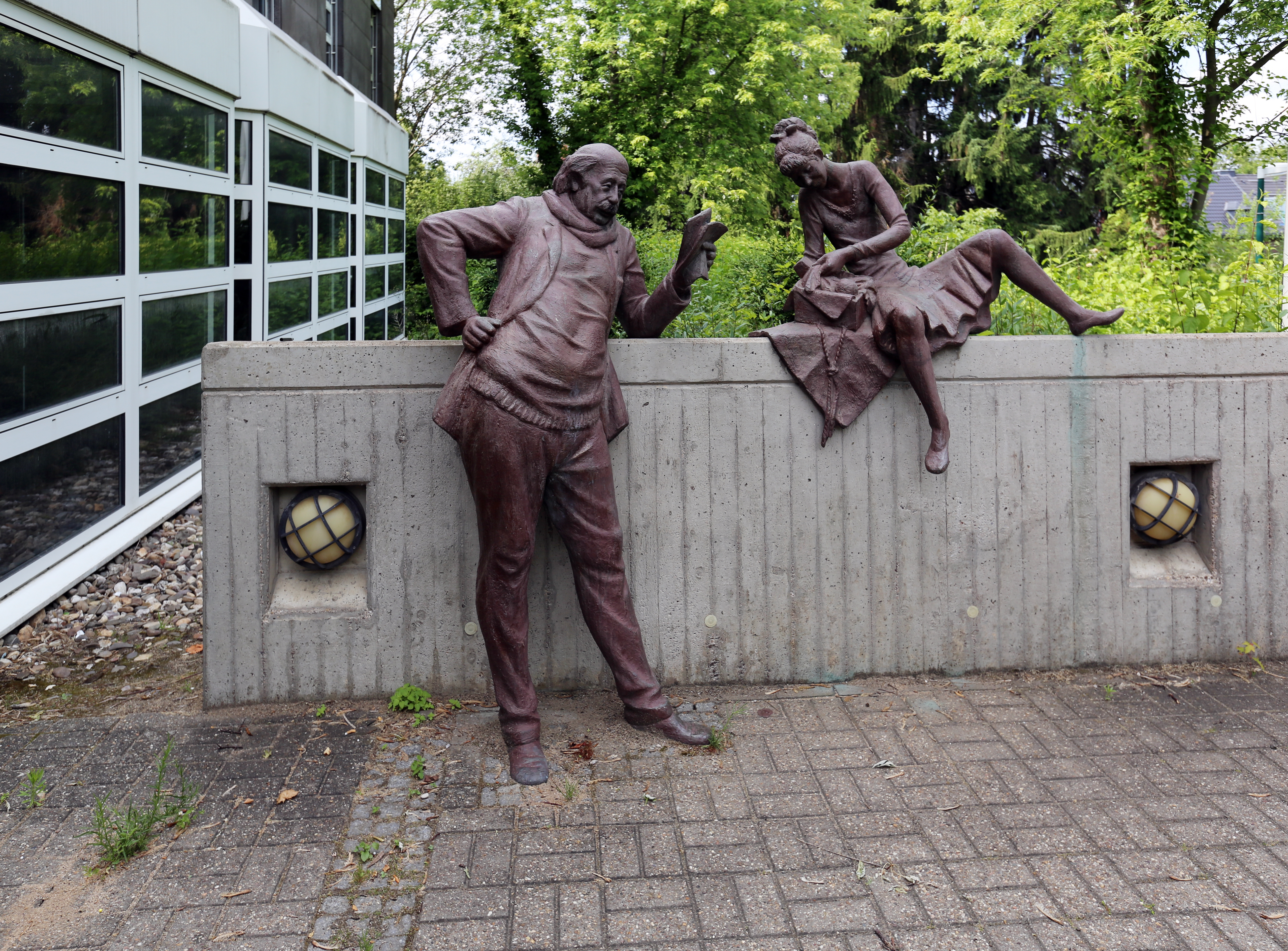 Hürth, Germany. Free-standing sculptures in front of a former post office. Sculptor Karl‐Heinz Klein, entitled„Brief und Päckchen“